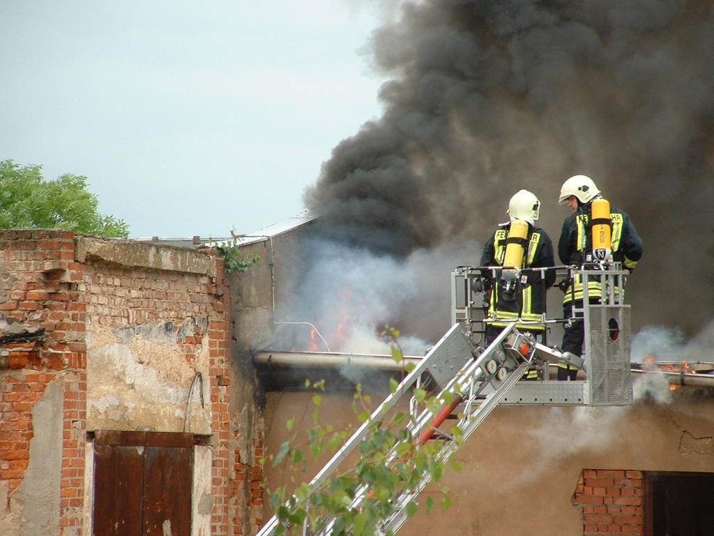 Firemen